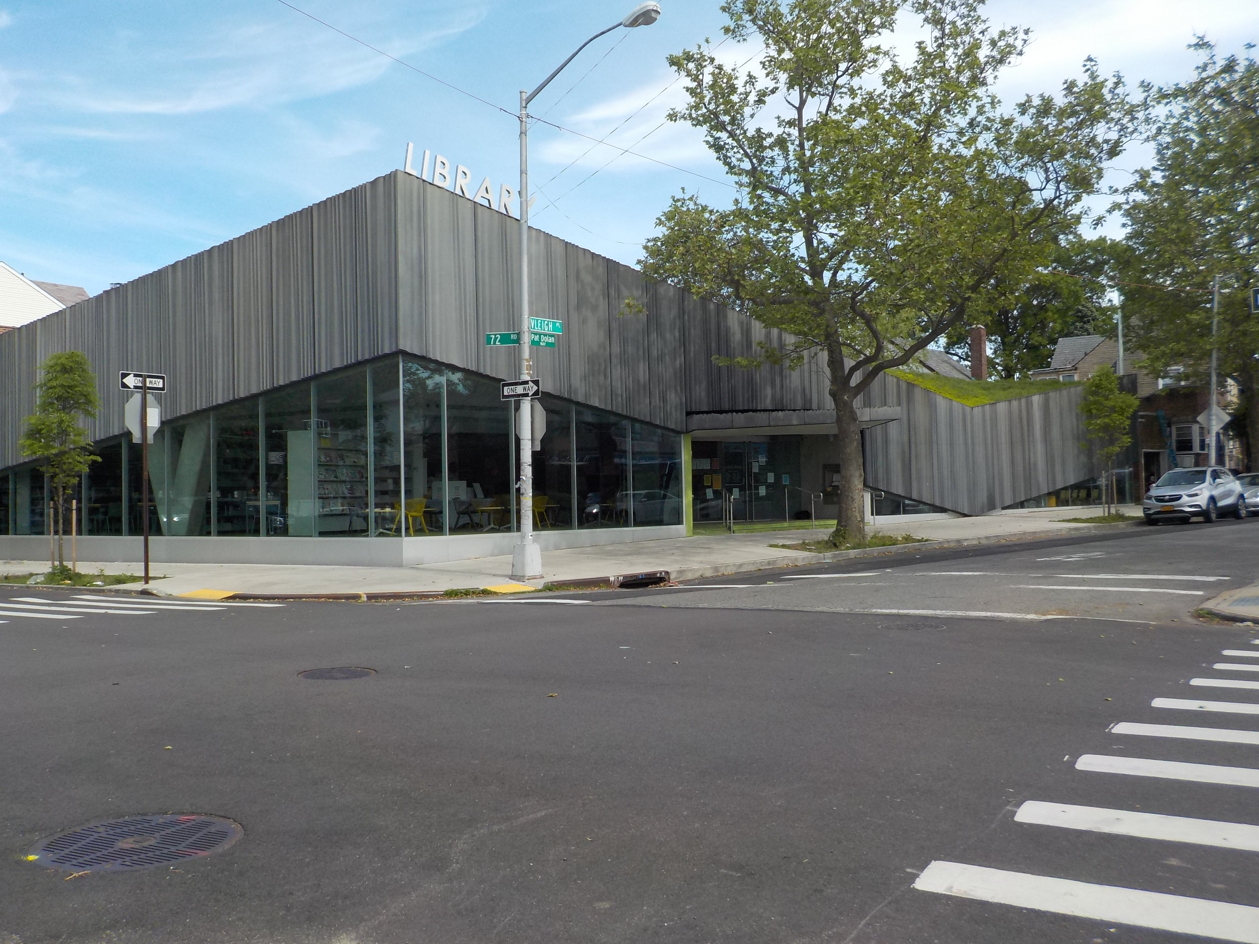 The new Kew Gardens Hills branch of the Queens Library (May 27, 2020)